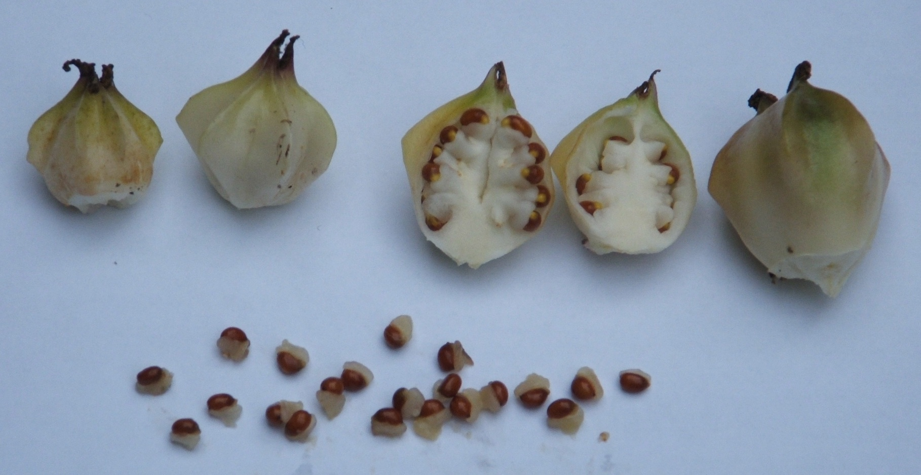 Ovaries and seeds of the prairie trillium (trillium recurvatum) collected in Iowa in mid August, including ovaries from the plants shown in file:TrilliumRecurvatum.jpg. A close-up photo showing just the seeds is in file:TrilliumRecurvatumSeeds.jpg.